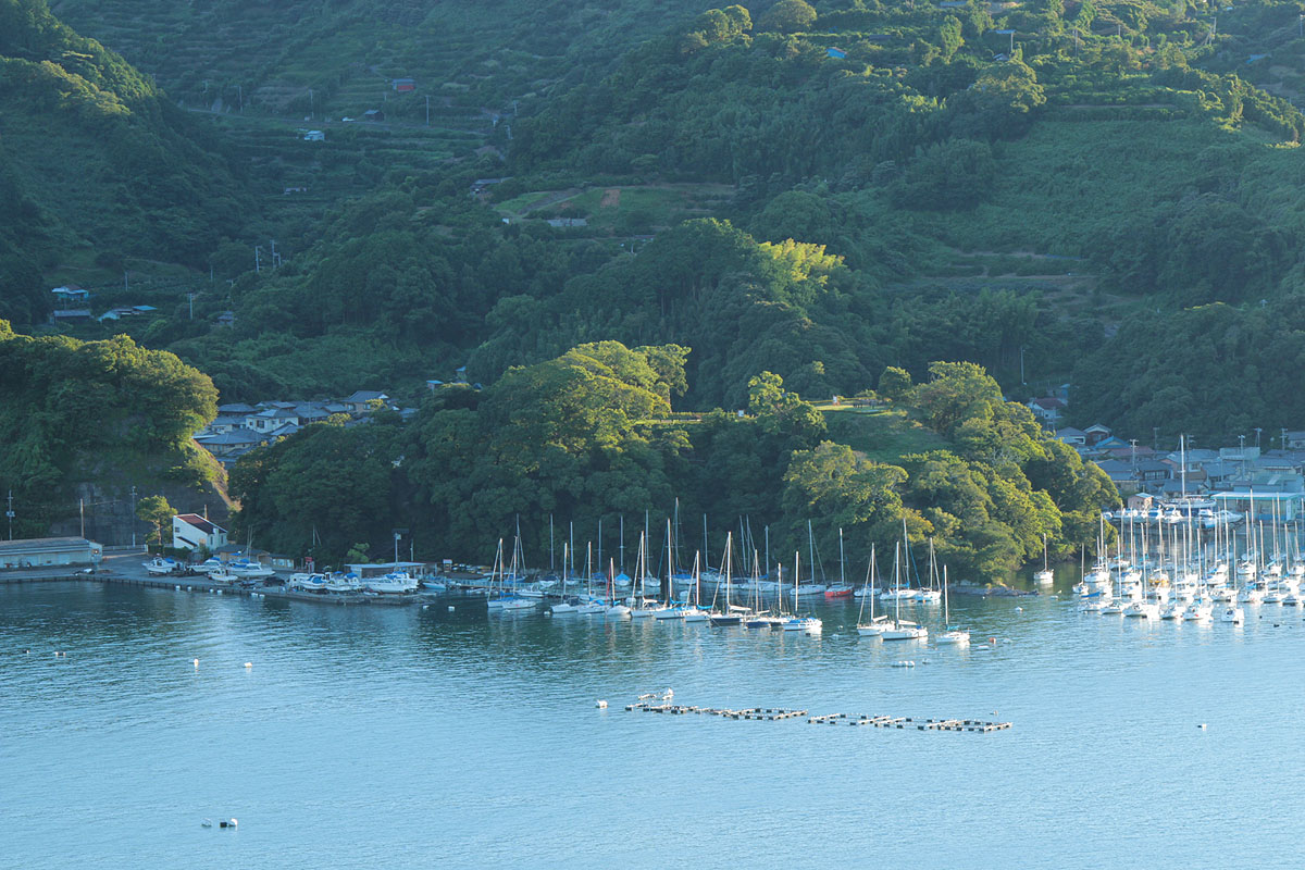 Site of Nagahama Castle as seen from the northeast in Numazu, Shizuoka Prefecture, Japan.